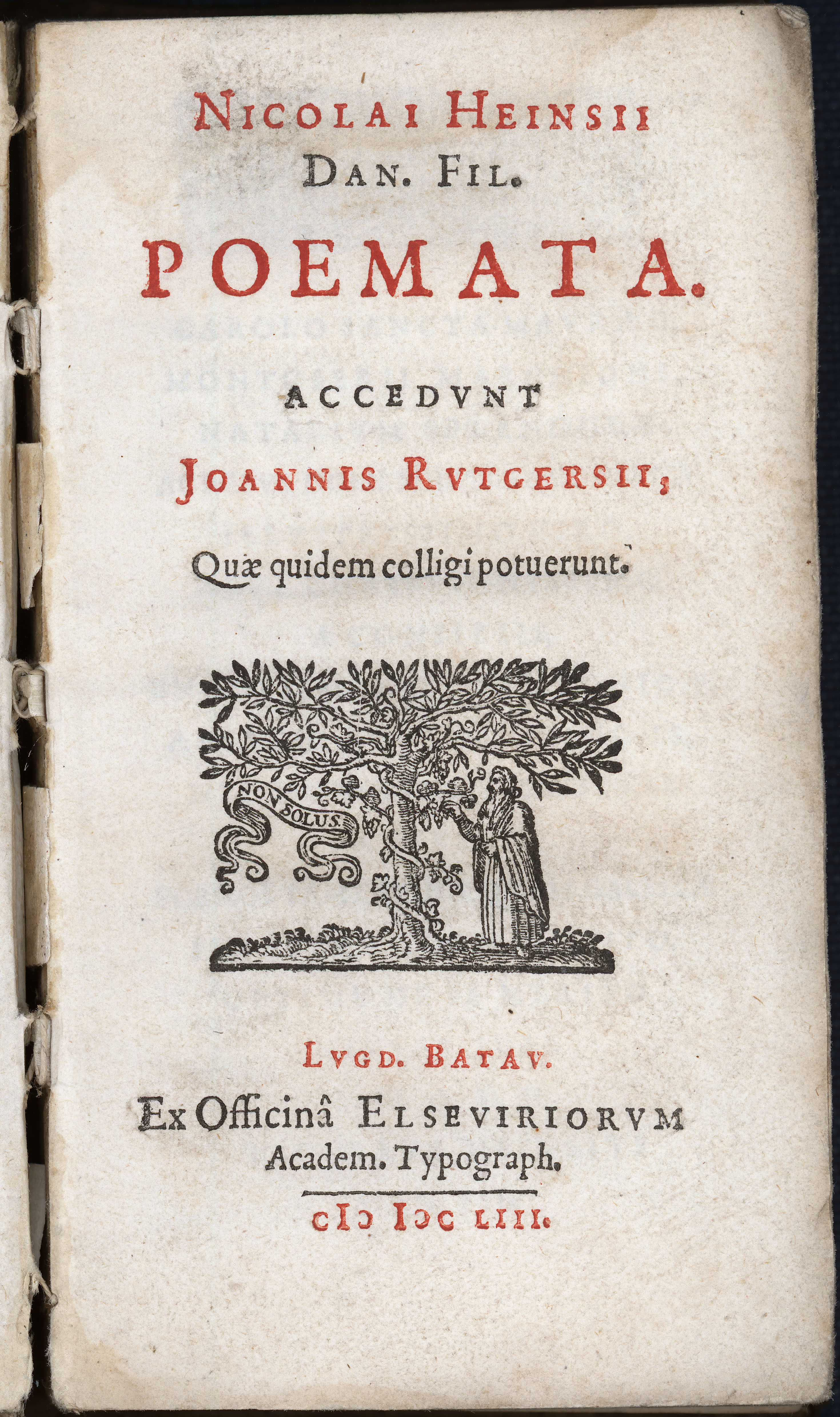 Title page of Nikolaes Heinsius the Elder, Poemata (Latin poems), first edition, printed by the Elzevier/Elsevier printers in Leiden, 1653. With the Elsevier/Elzevier printer’s mark (woodcut). The full Latin title reads: Nicolai Heinsii Dan[ielis]. Fil[ii]. Poemata. Accedunt Joannis Rutgersii, Quæ quidem colligi potuerunt. Lugd[uni]. Batav[orum]. Ex Officinâ Elseviriorum Academ[icorum] Typograph[orum]. M DC LIII. The edition also contains the collected poems of Jo(h)ann Rutgers.